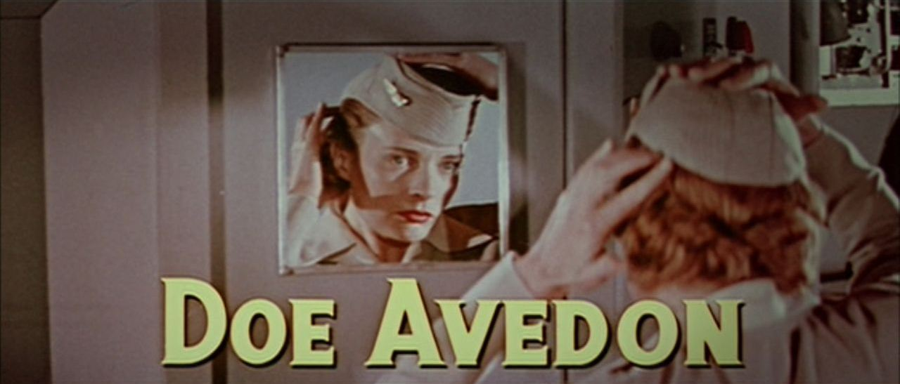 Screenshot showing Doe Avedon from the film The High and the Mighty.